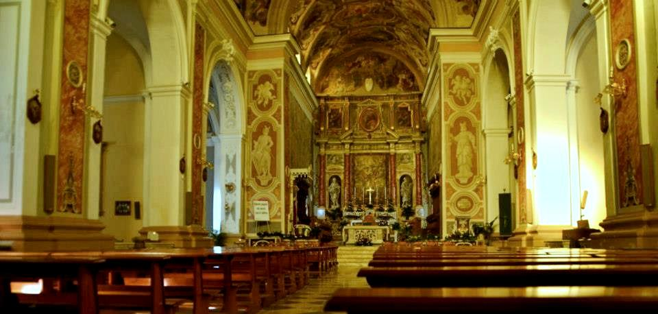 duomo di sarno